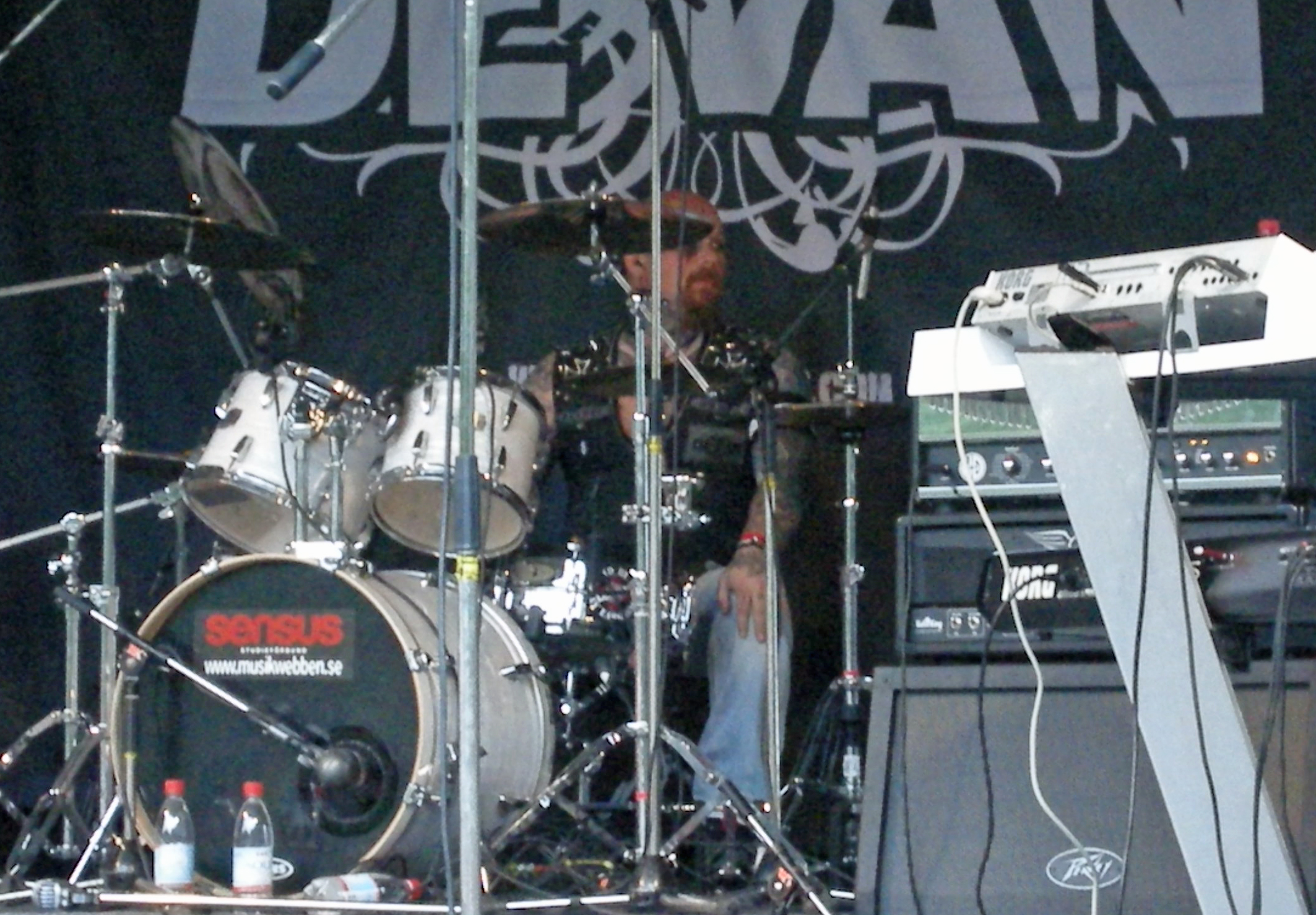 Swedish rock band De Van at Skogsröjet, Rejmyre, Sweden 2012